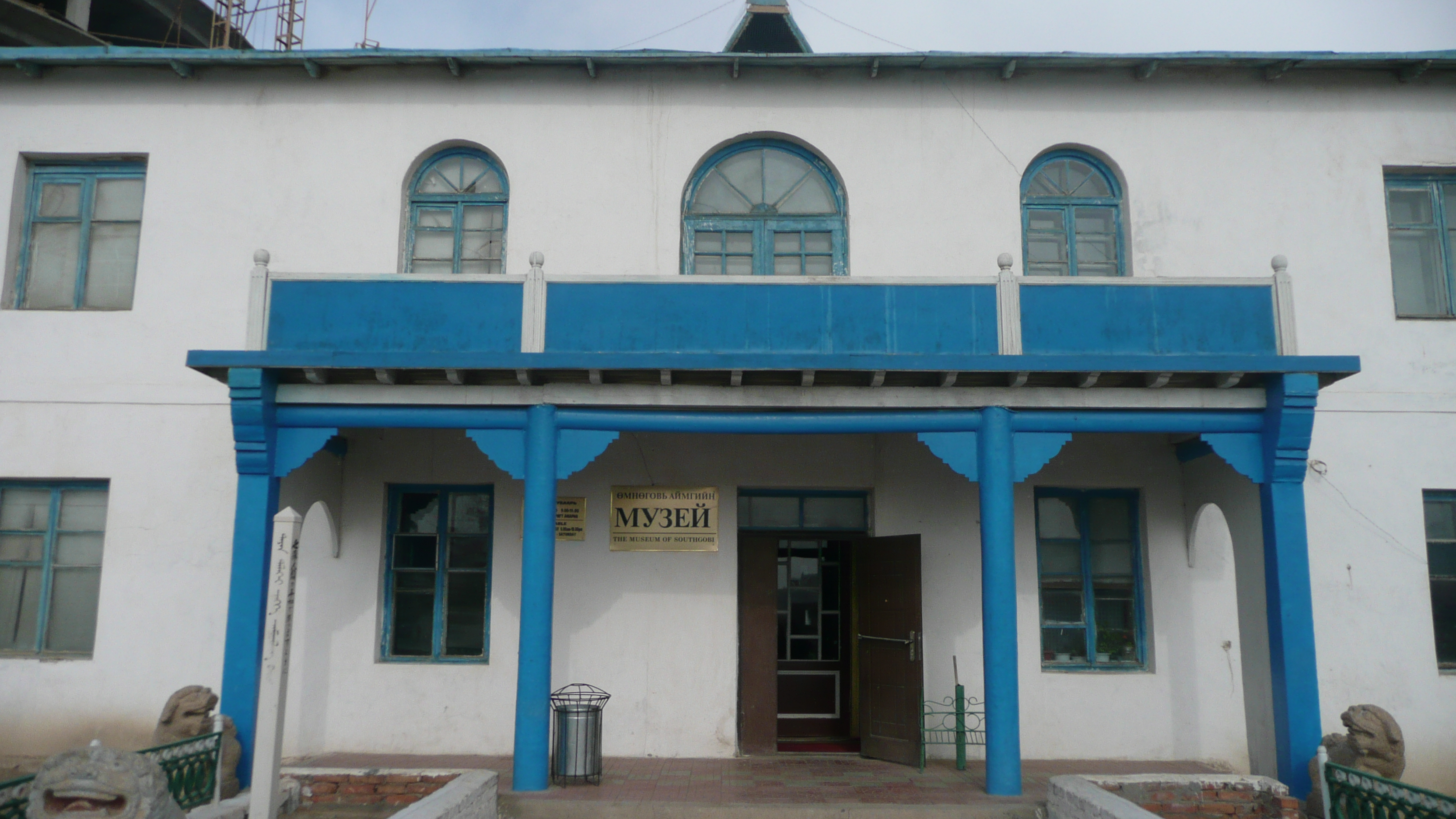 Museum of South Gobi in Dalanzadgad